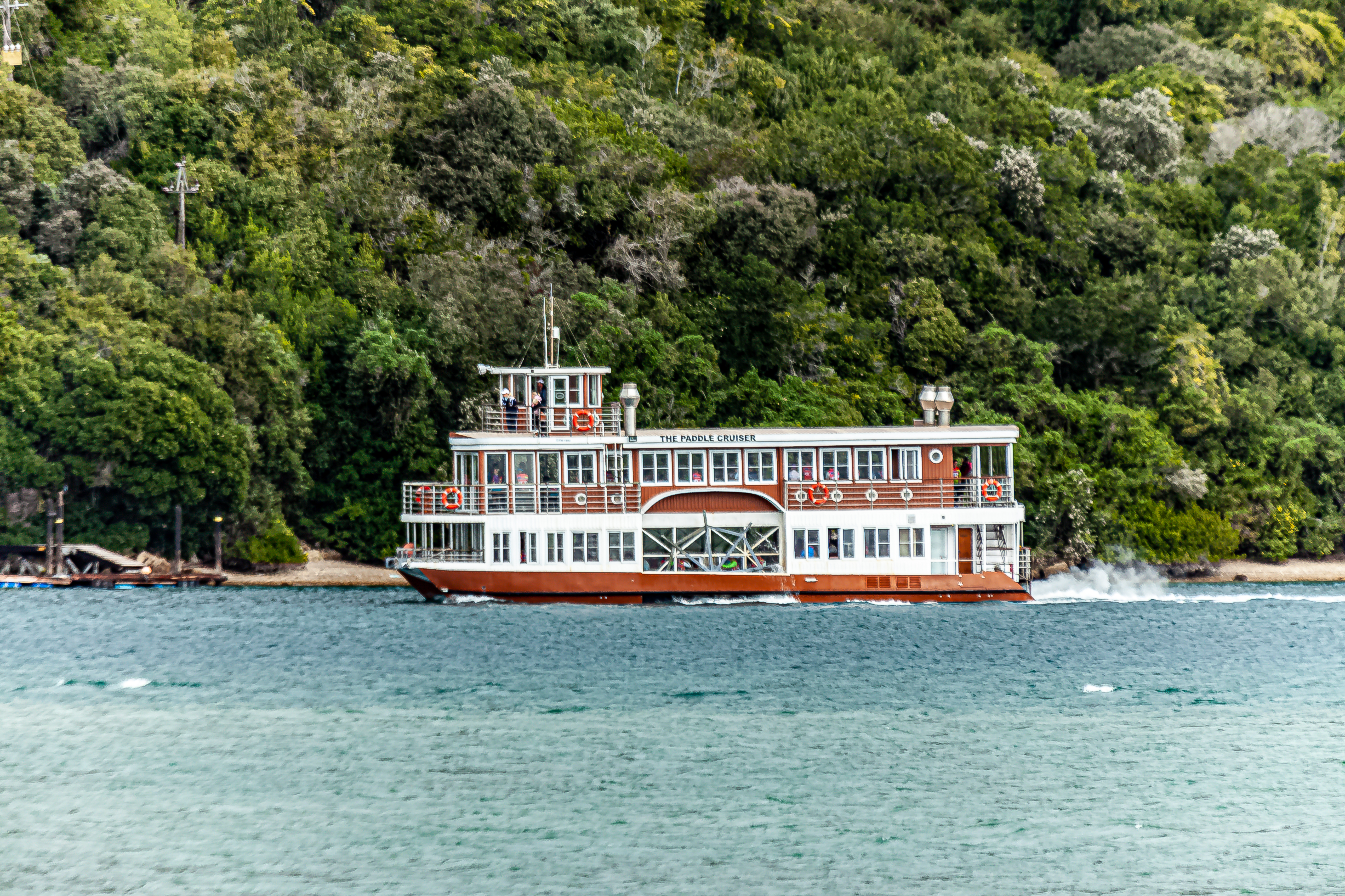 A cruse on the lake in Knysna This is an image with the theme "Africa on the Move or Transport" from: South Africa